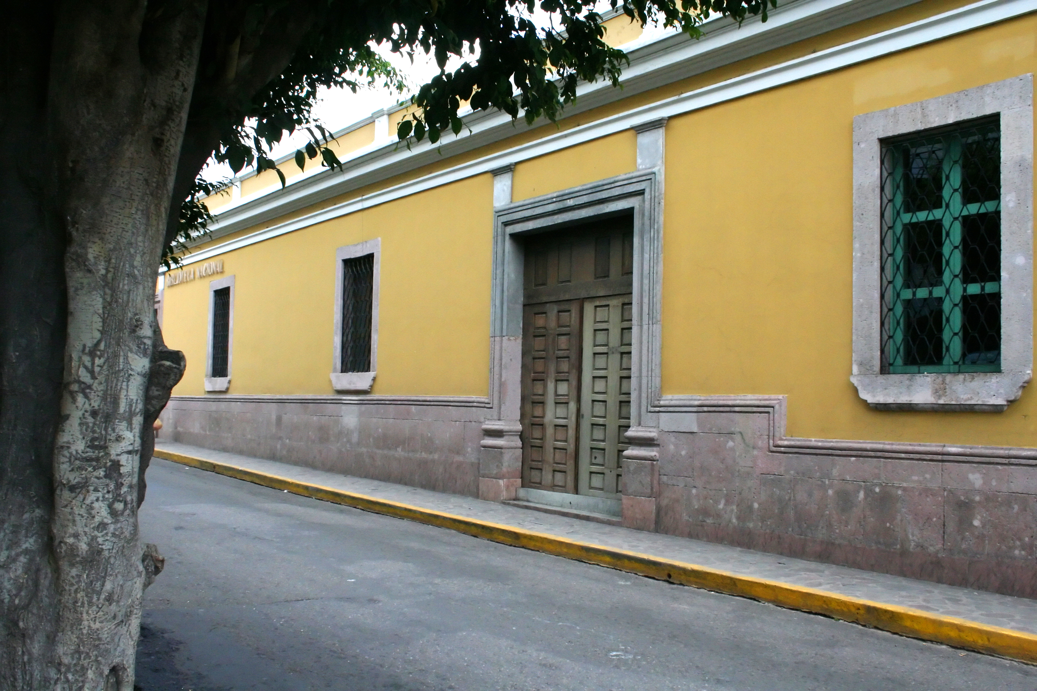 The National Library Juan Ramón Molina in Tegucigalpa, Honduras